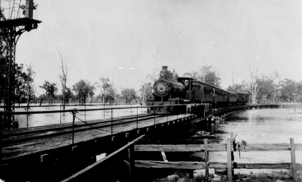 Passenger train on the Bridge across Charley's Creek, Chinchilla during the 1921-22 floods. At the height of the floods the train crosses Charley Creek Bridge. The floodwaters almost reach the top of the bridge supports.